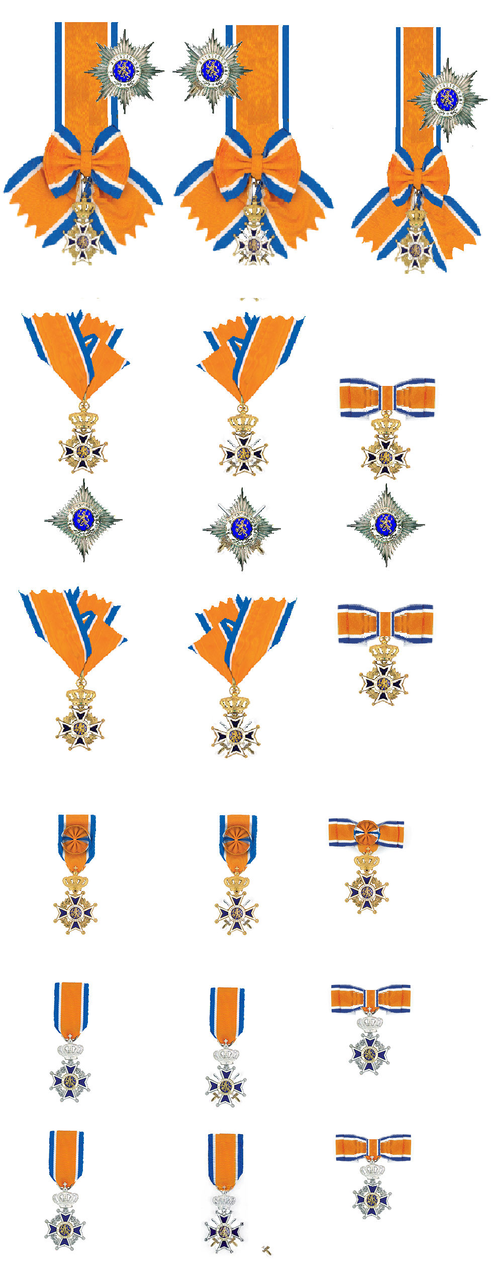 Order of Orange Nassau